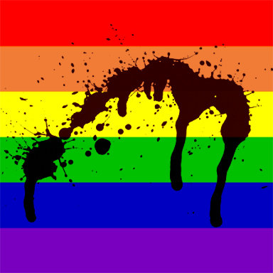 Rainbow flag with dried blood. Against Homophobia. Used in Facebook after the 2009 Tel Aviv gay centre shooting. More widly used on the street was File:Gay memory flag.JPG